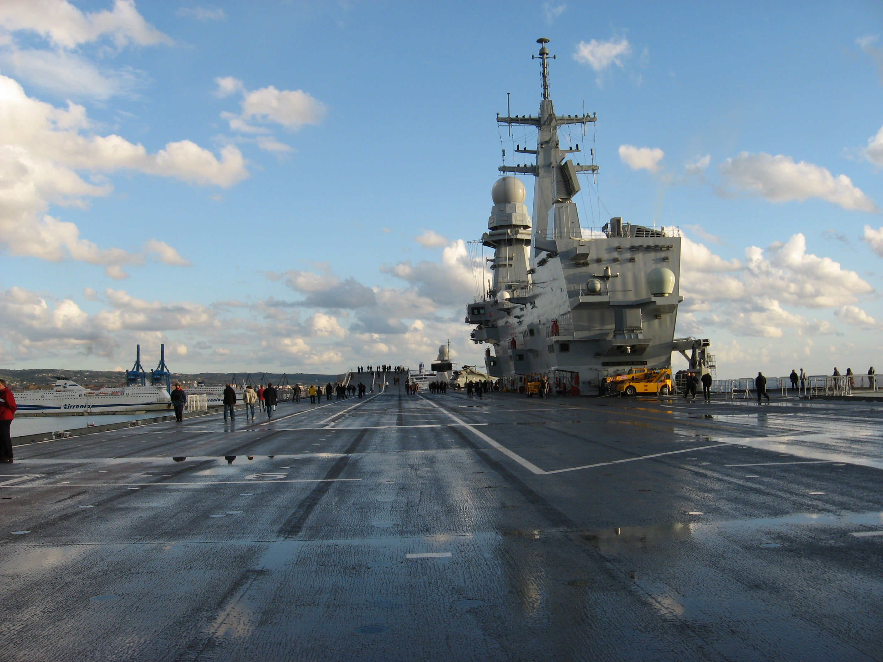 Italian aricraft carrier Cavour (550) flight deck.